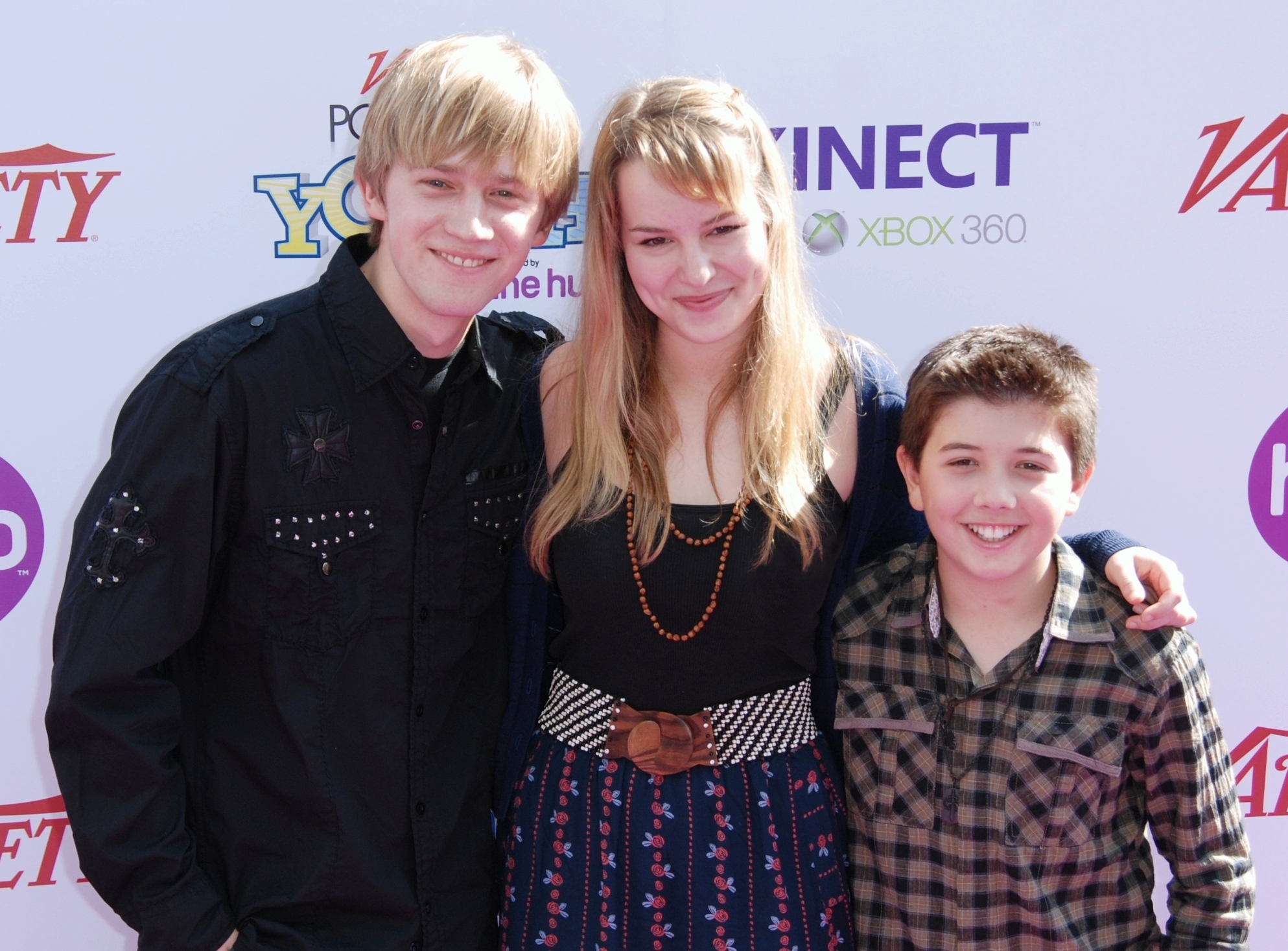 Jason Dolley, Bridgit Mendler and Bradley Steven Perry attends the Variety's Power of Youth Event at Paramount Studios in Hollywood, CA, Oct 24, 2010